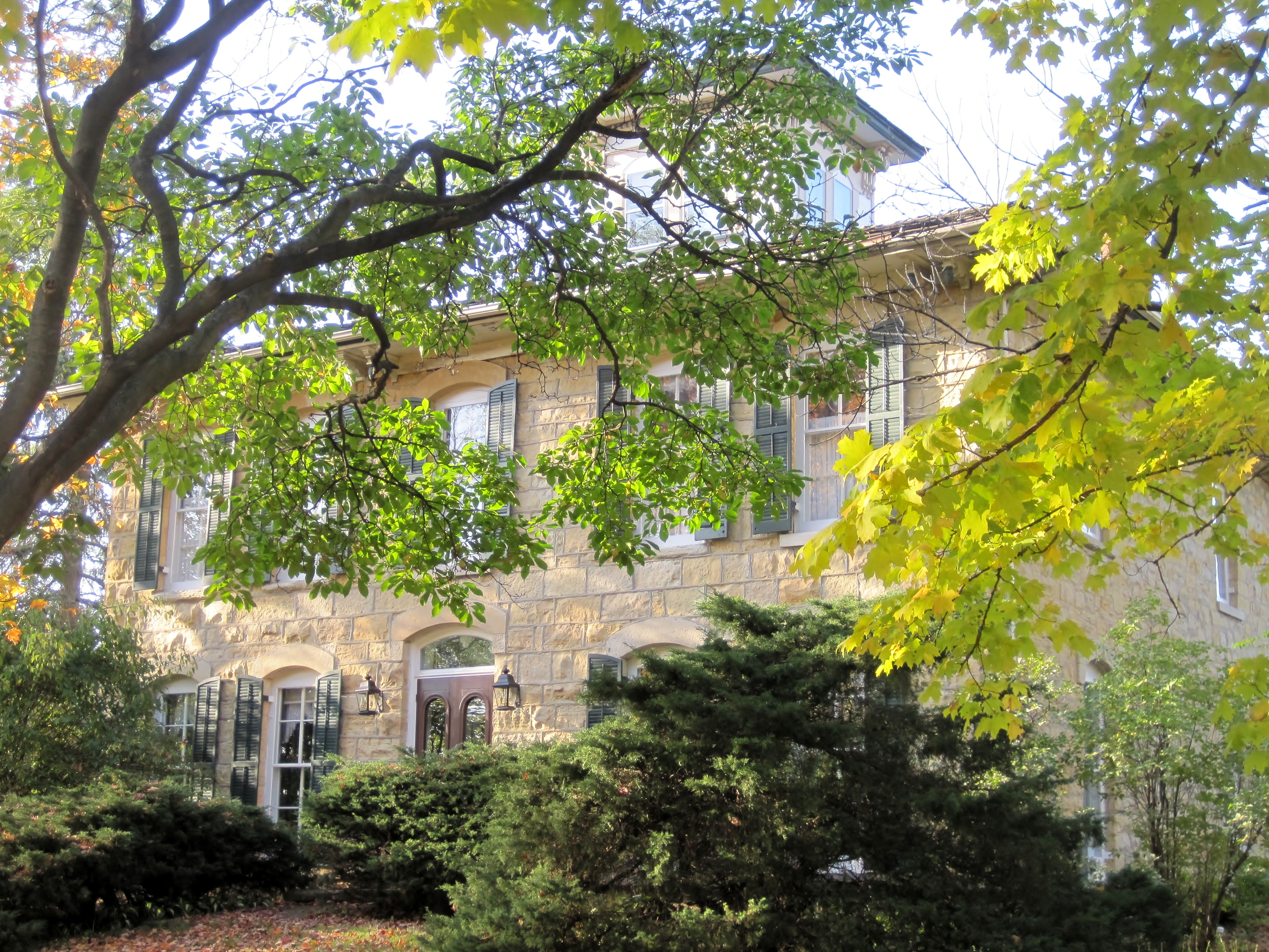 Stone Manor in Homer Glen, Will County, IL. Listed on the NRHP as in Lockport vicinity. This building is fairly deep into (semi-)private property, so I could not get a clearer picture.